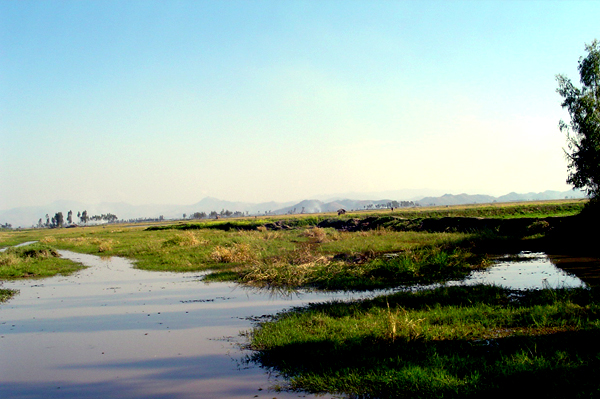 Pumlet lake situated about 68 km from Imphal